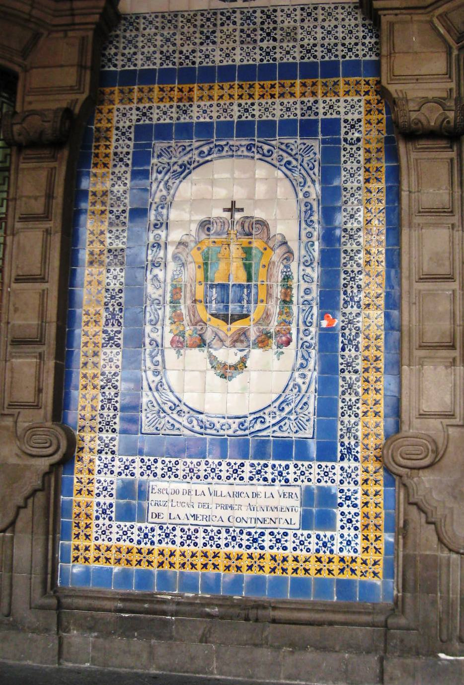 Tile mosaic depicting the Villa Rica coat of arms in Veracruz. This was the first ayuntamiento (district council) in the Americas. If you look really close, then many people say you can see a phallus in the upper-right corner of the shield. Blumpkin.